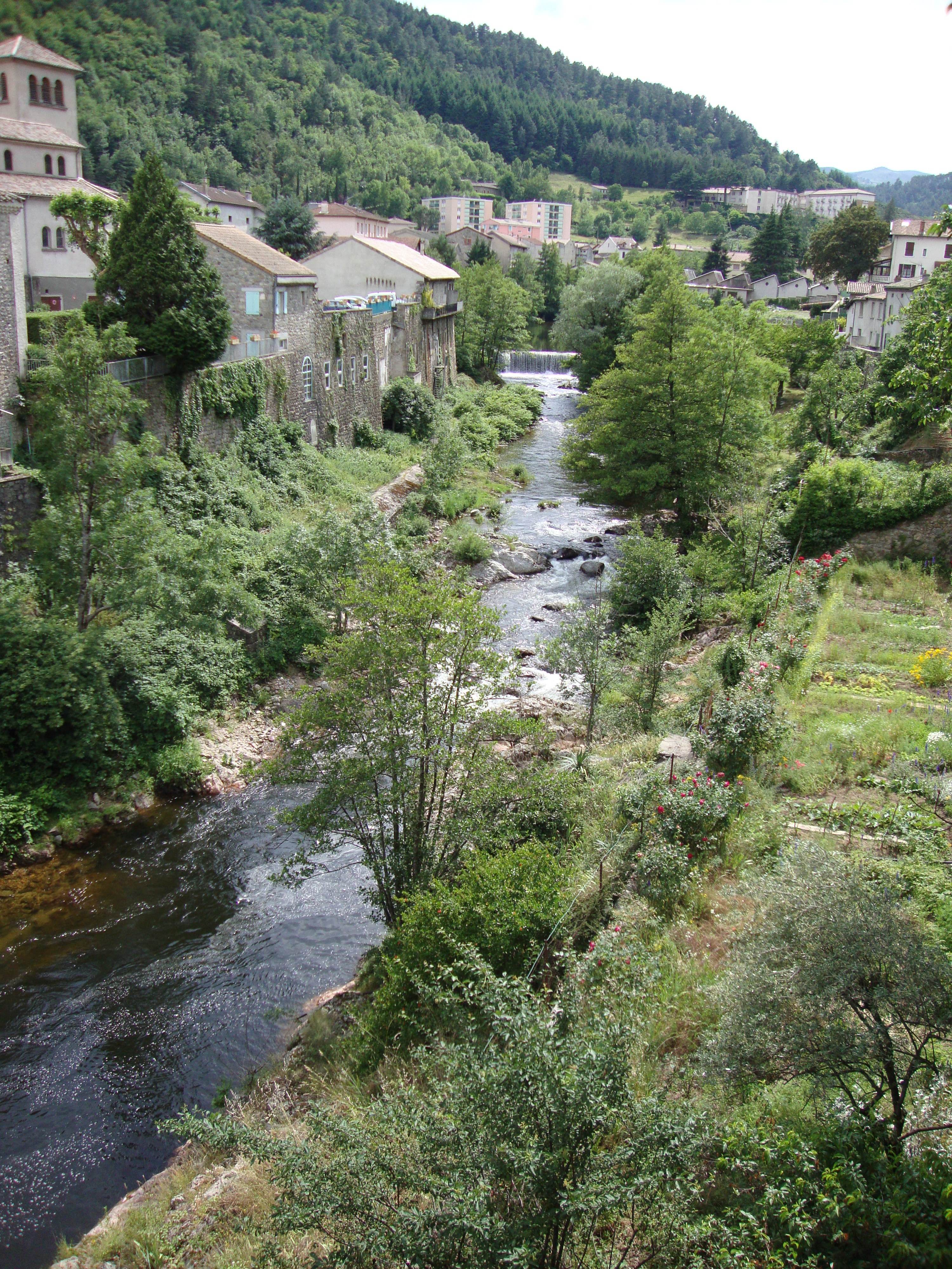 St.Sauveur-de-Montagut (Ardèche, Fr) la Glueyre (vers l'amont).